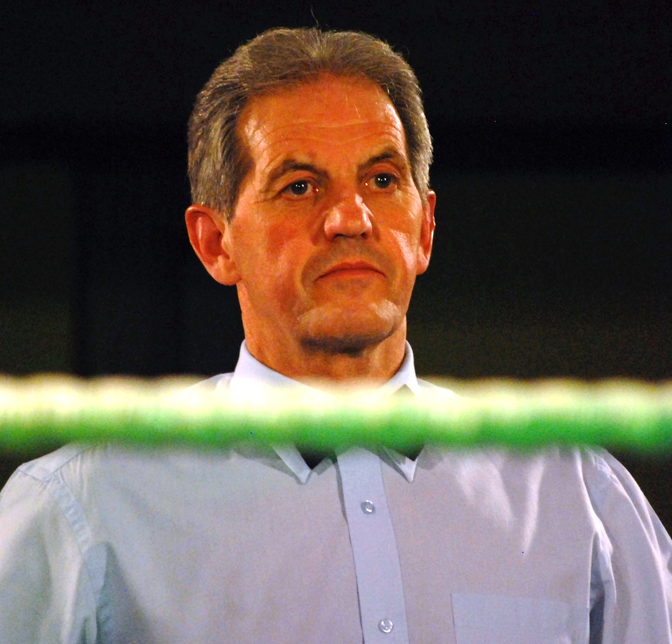 John Blackledge Referee at Glasgow Event